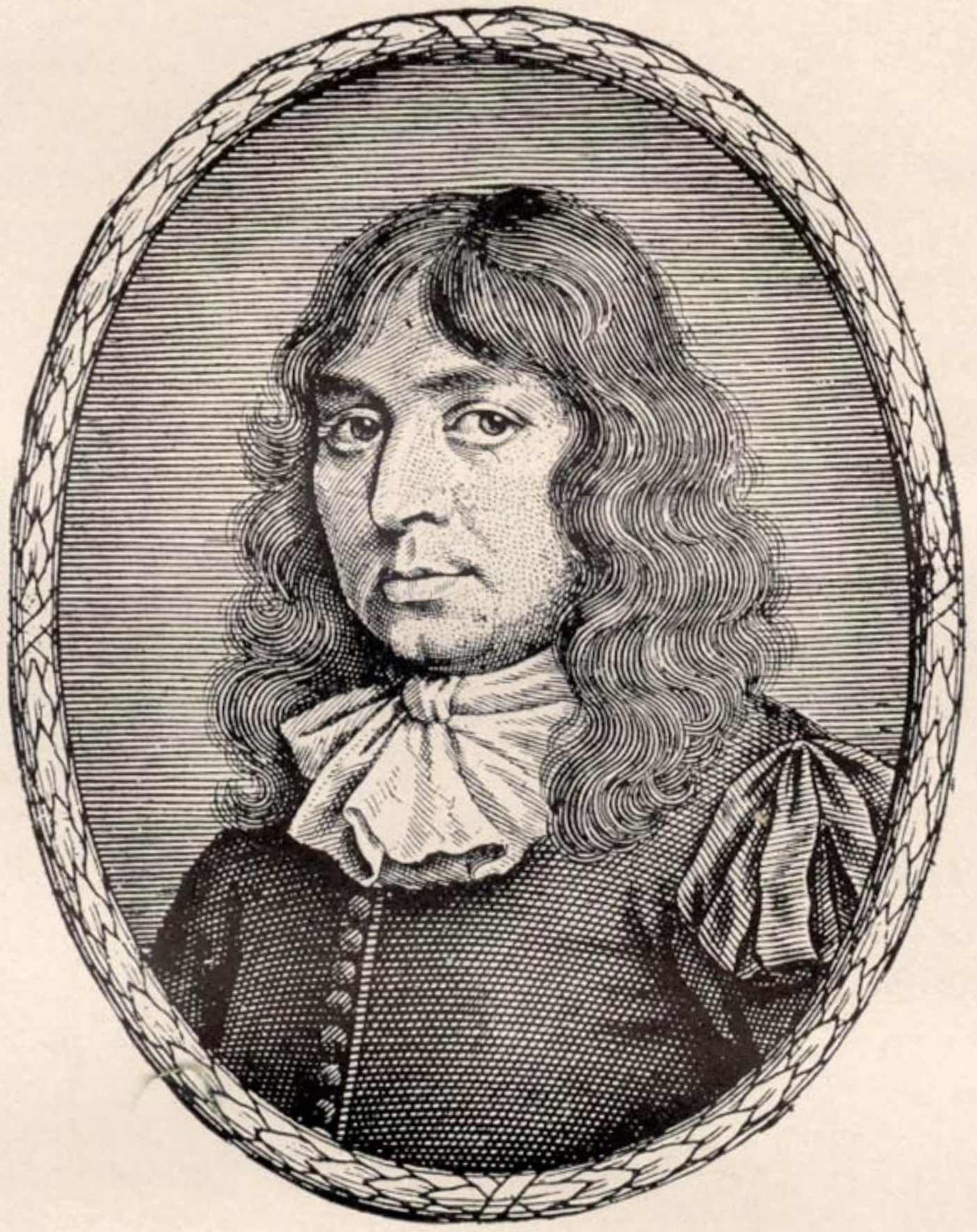 First Baptist minister John Smyth